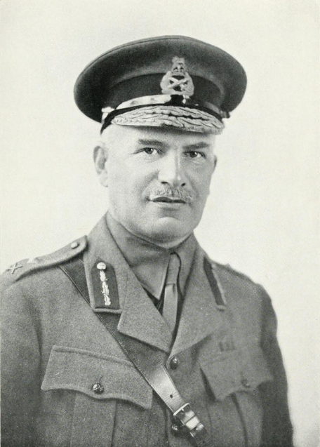 Original caption: "Major-General Sir Reginald Pinney, KCB, who commanded the 23rd Brigade at the Battle of Neuve Chapelle, and later the 35th and 33rd Divisions". Photograph presumably made between 1915 (when promoted major-general) and 1919 (retirement).